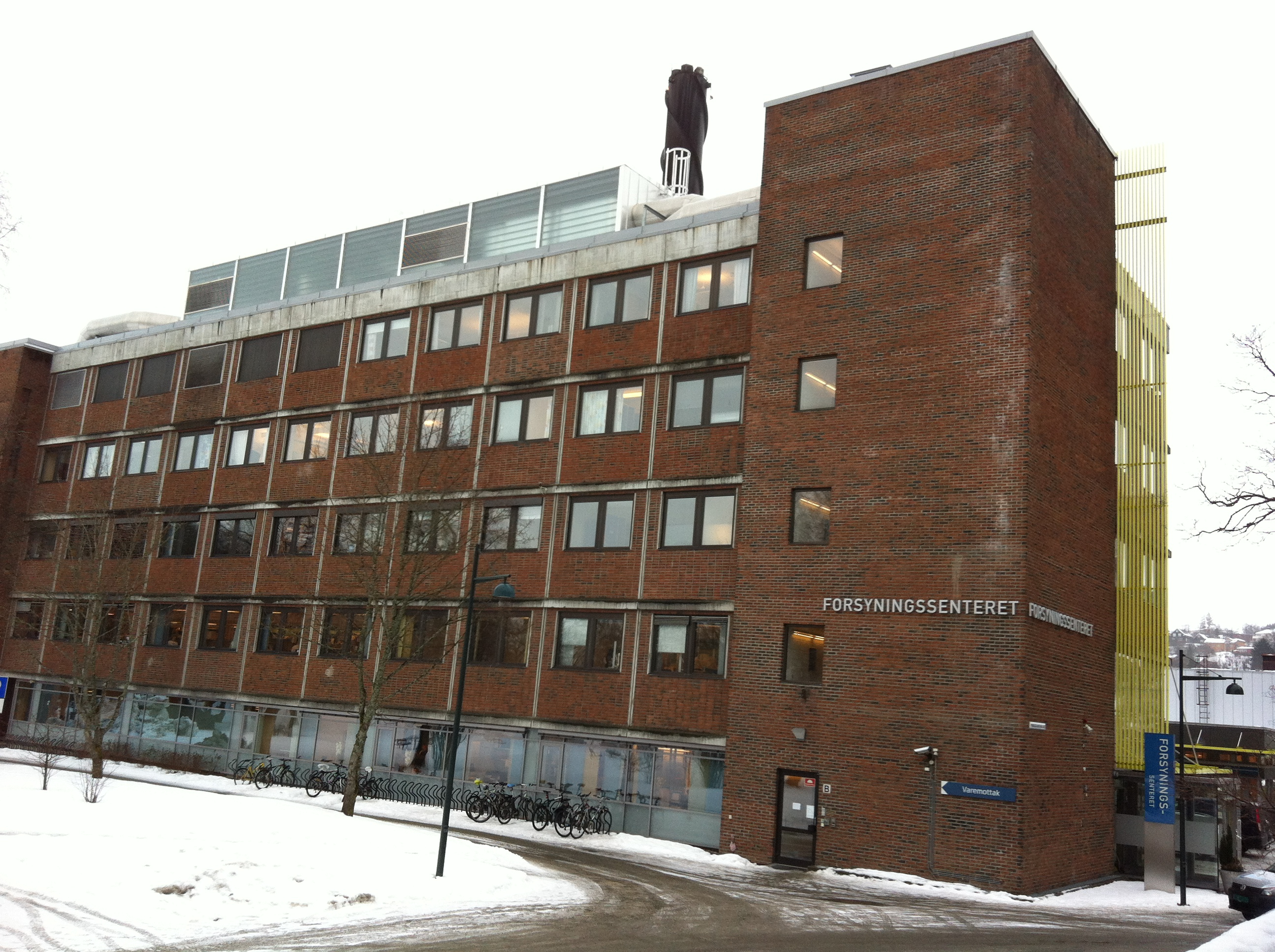 One of the buildings at the St. Olav hospital in Trondheim, Norway